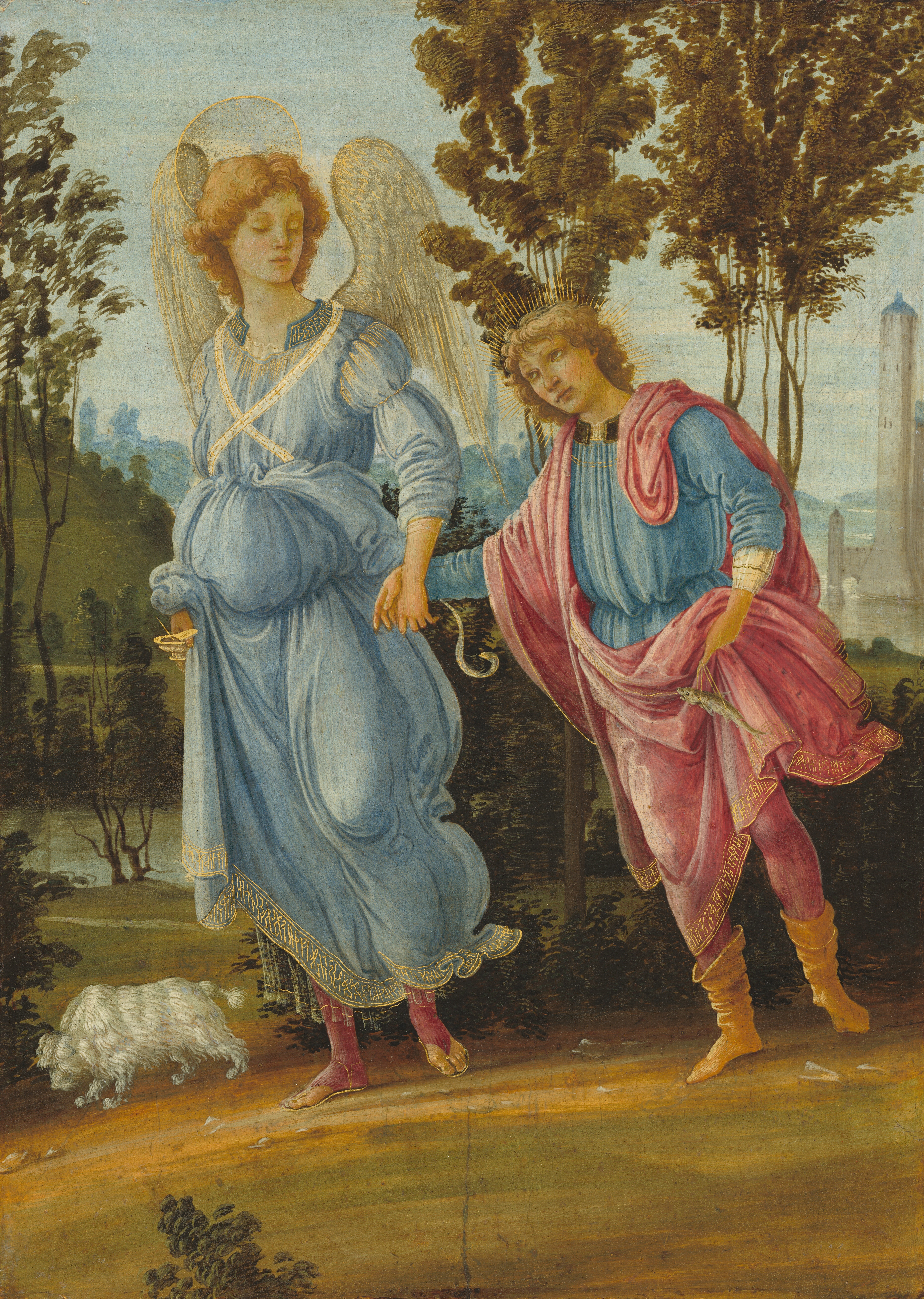 National Gallery of Art Scan